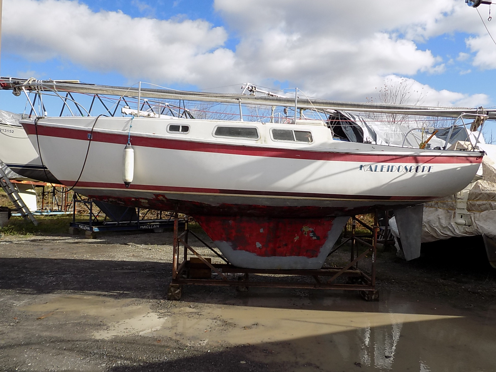 A Cal 25 sailboat named Kaliedoscope on its cradle, showing the keel and rudder arrangement.